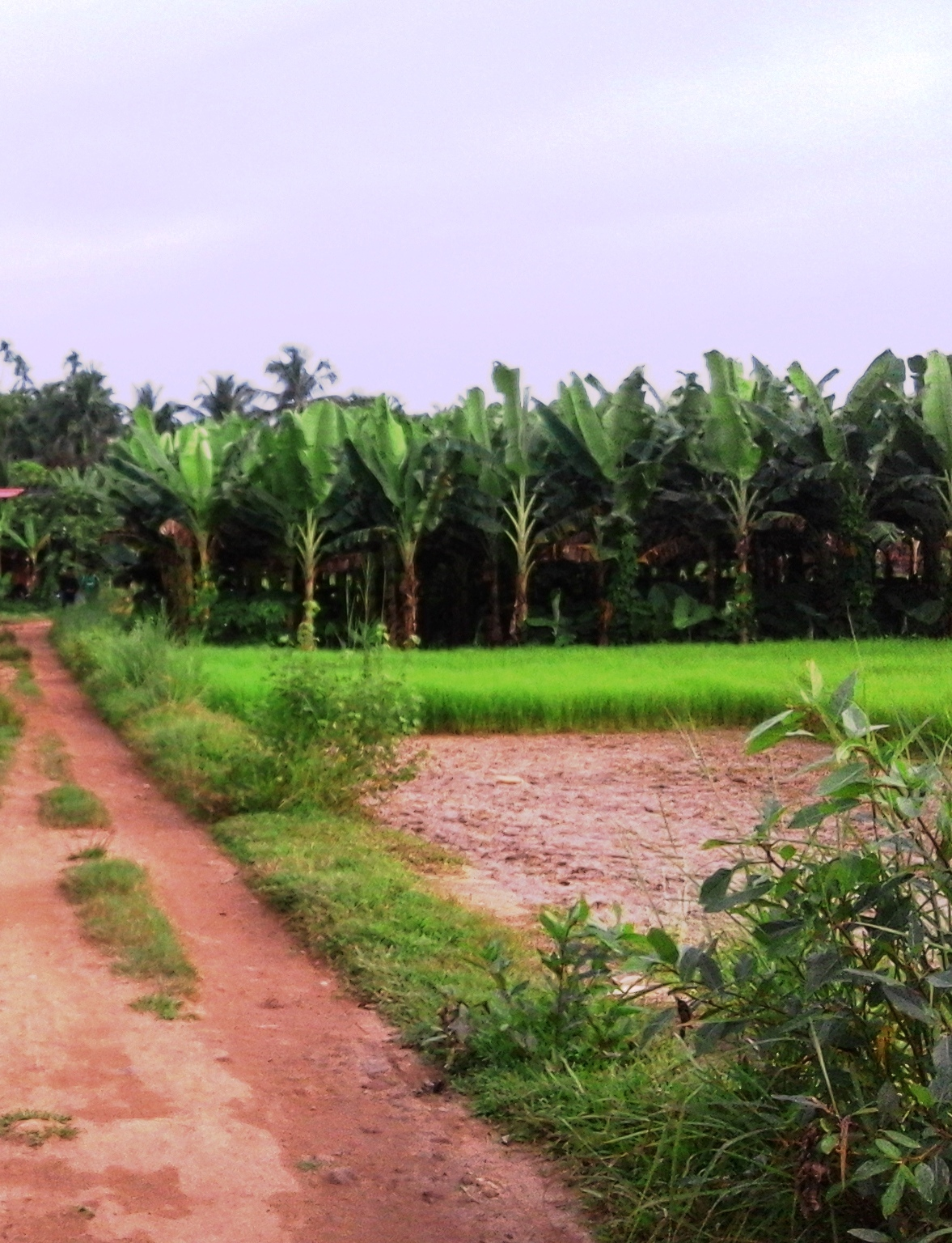 Homeo Road from Ramanattukara takes you to Kuttoolangady village by a traffic-less walking track through paddy fields. Kozhikode Dt. Kerala, India.